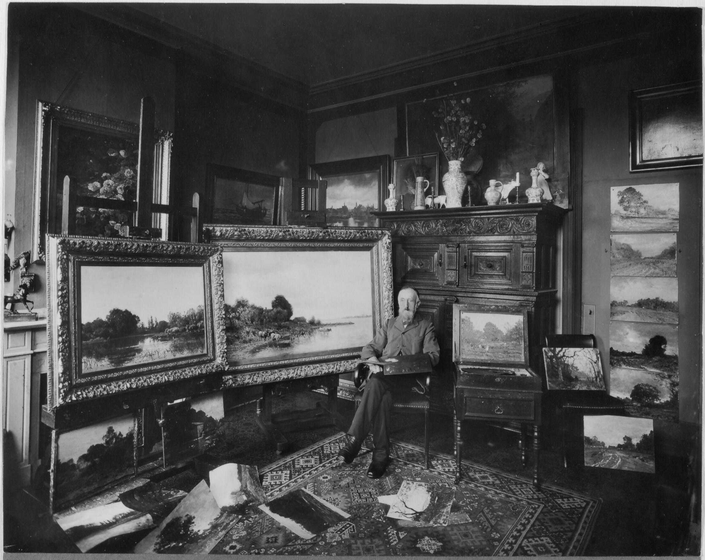 Portrait of the Dutch painter Julius van de Sande Bakhuyzen (1835-1925)